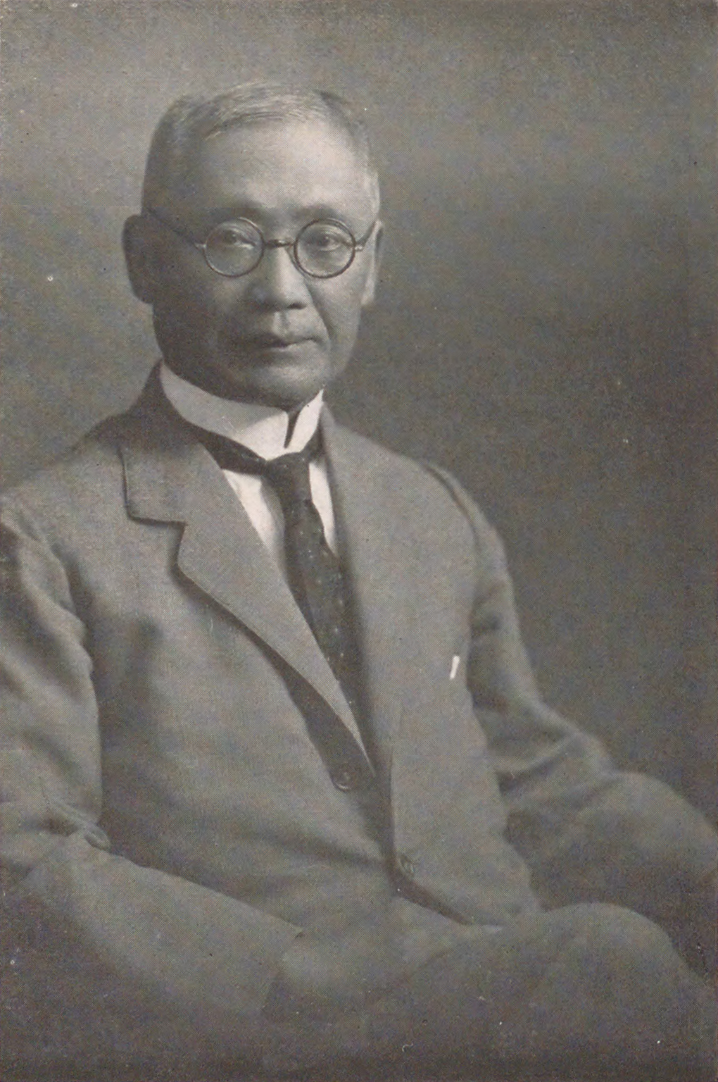 Portrait of Hatano Shogoro (波多野承五郎, 1858 – 1929)